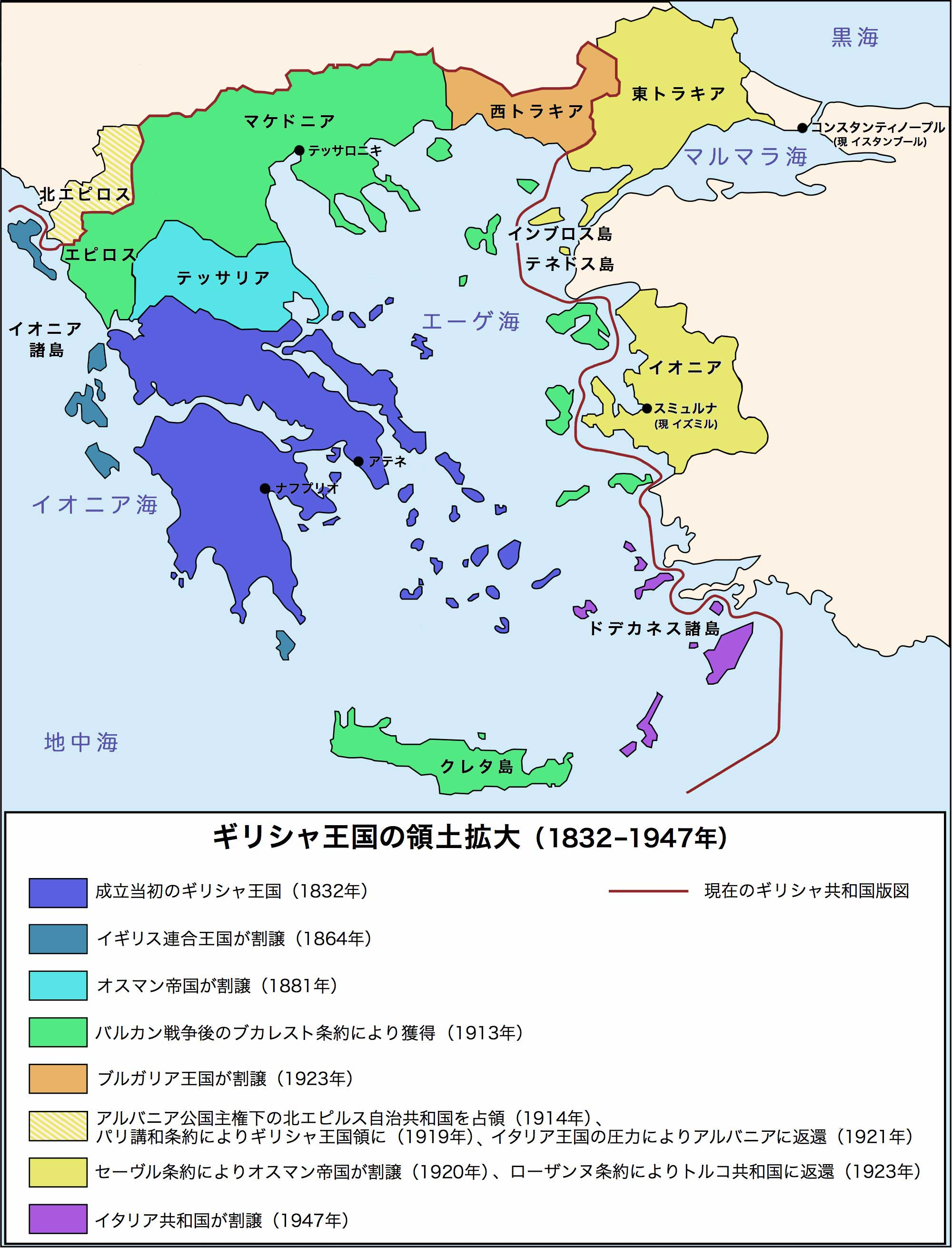 The territorial expansion of Greece, 1832-1947